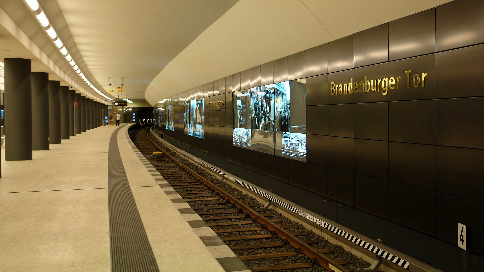 Berlin, Subway stop Brandenburger Tor.